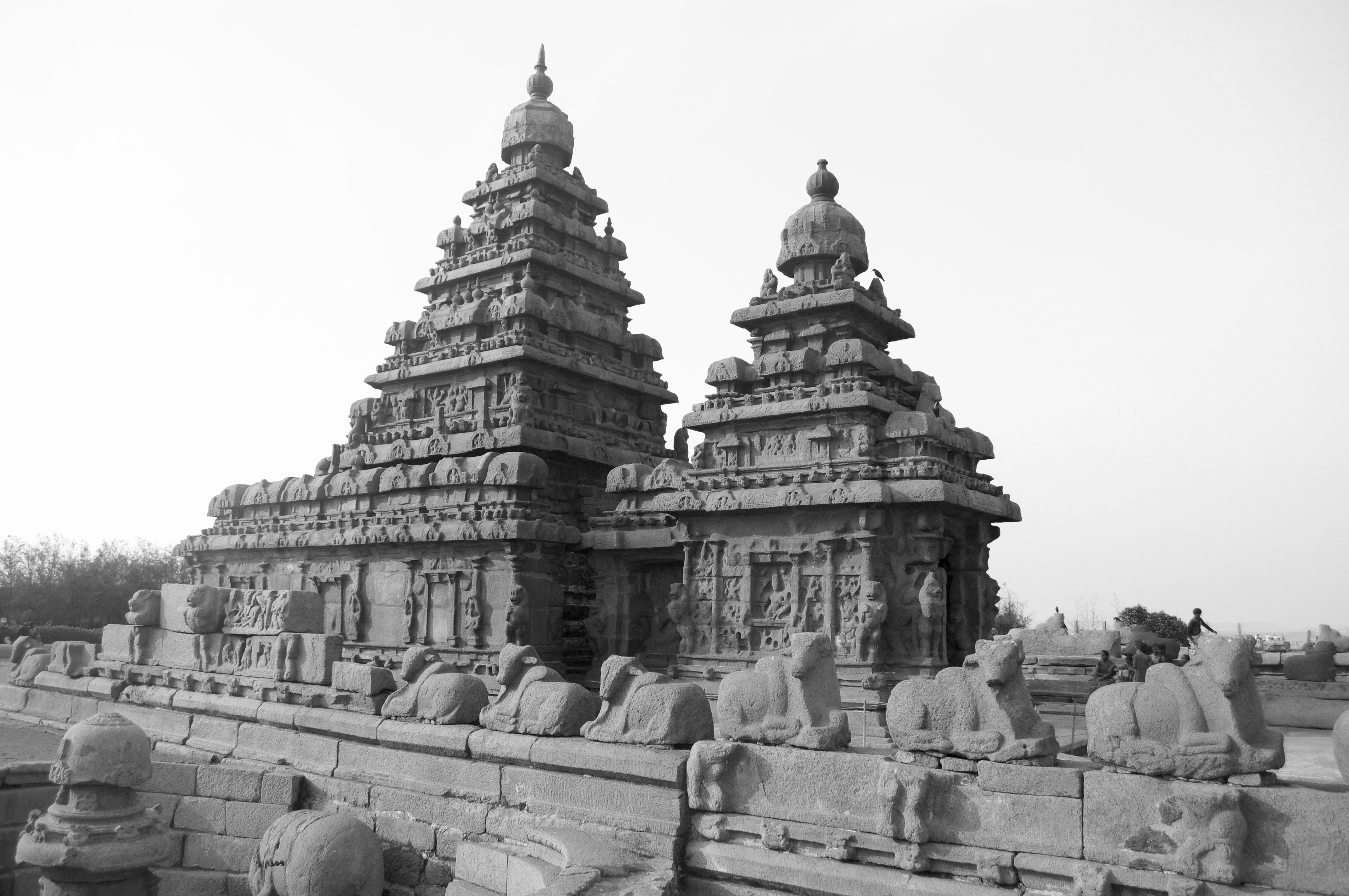 A detailed black and white image of the north face of the monument. Most of the face is visible, with the exception of some of the inland stonework (off frame to right) and the pit off frame to bottom left. Detail is superior to existing images so I decided to upload it.